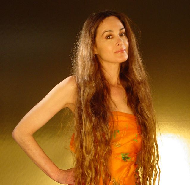 Photo of Diane Arkenstone